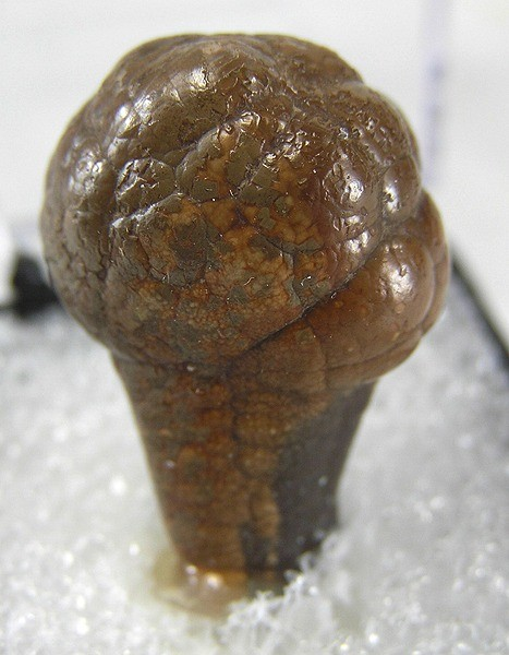 Cassiterite (Var.: Wood Tin) Locality: América-Sapioris (Potrillos) District, Municipio de Coneto de Comonfort, Durango, Mexico (Locality at ) Size: 2.3 x 1.5 x 1.2 cm. It is quite unusual to see these bizarre Mexican cassiterites on the market - so called "wood tin" cassiterites, for their woody appearance (tin being the component of cassiterite that makes it an important ore worldwide). It has a broccoli form, with a stalk and botryoidal cap.